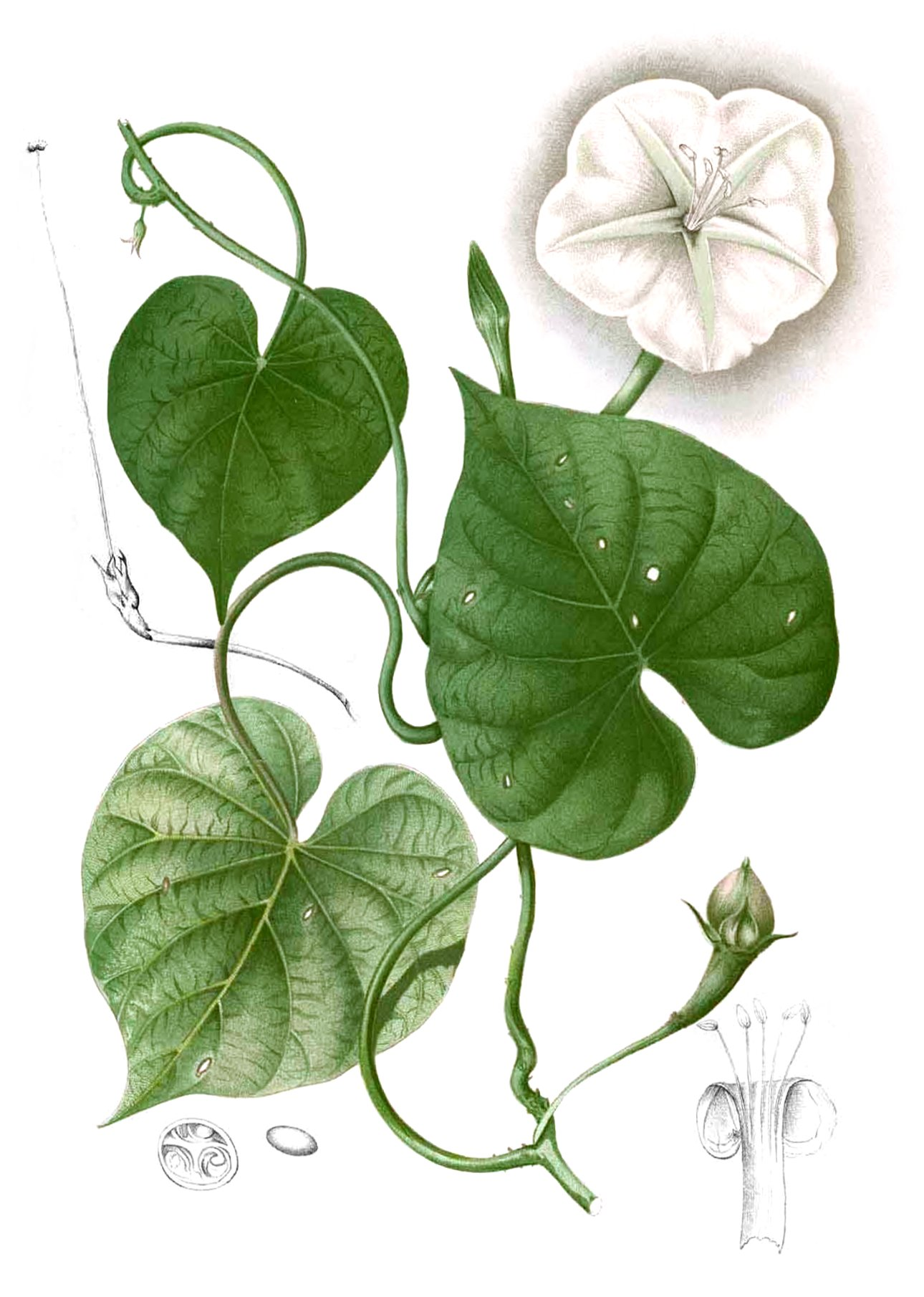 Plate from book